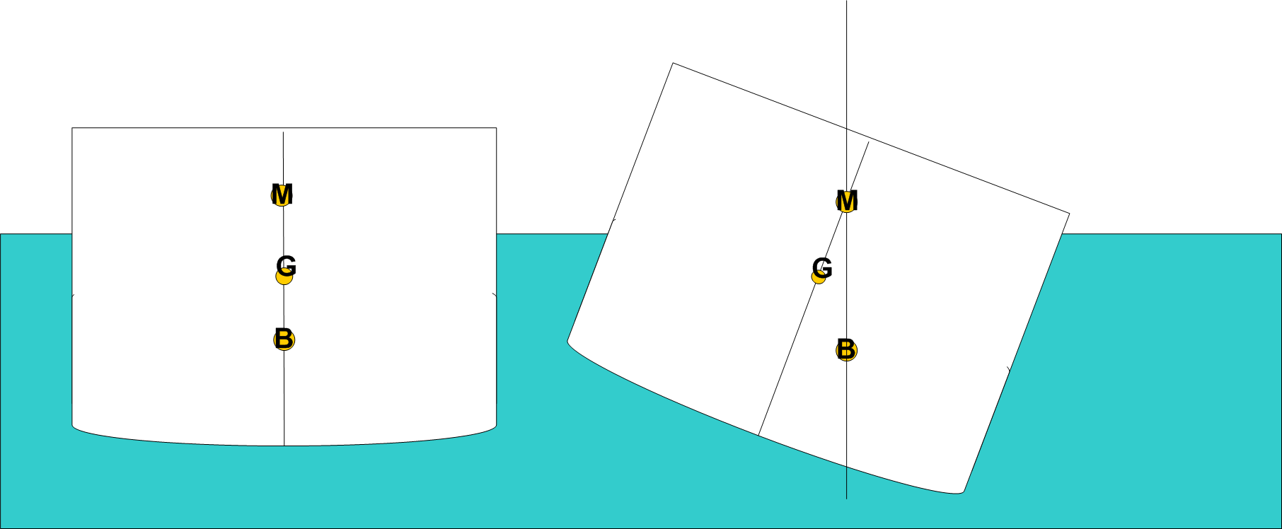 The relative positions of the Center of Gravity, Center of Buoyancy, and Metacenter (see Metacentric height and more generally Naval Architecture#Stability)